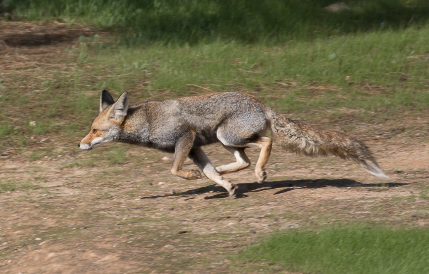 Red fox, (Subspecie: Palestinian fox V. v. palaestina) Eshel HaNasi, near Beersheba, Israel